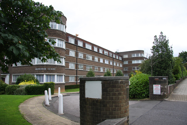 Belvedere Court This apartment block on Lyttelton Road was designed by Ernst Freud, son of the famous psychologist - Sigmund Freud. It was constructed in 1937/8.